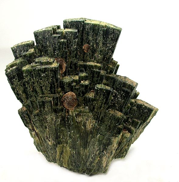 Hedenbergite, Garnet Locality: Dal'negorsk (Dalnegorsk; Tetyukhe; Tjetjuche; Tetjuche), Primorskiy Kray, Far-Eastern Region, Russia (Locality at ) I think this is an excellent and unusually attractive hedenbergite from the world famous deposits of Dal’negorsk, in the Russian far east. Most such pieces are squat and solid, but this is as elegant as a dark green, opaque, rockforming mineral can get. The diverging spray of variegated green, well terminated, and lustrous crystals to 9 cm (showing individual unobstructed faces to 6 cm), is occasionally dotted with rounded orange garnets up to .75 cm. 9 x 7.7 x 4.6 cm